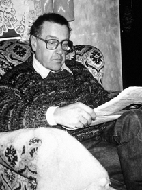 Vilmos Kondor